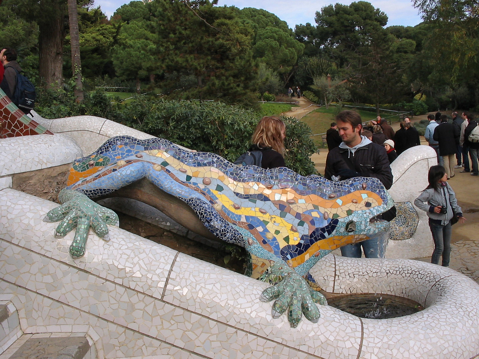 The mosaic dragon at the entrance to Parc Güell